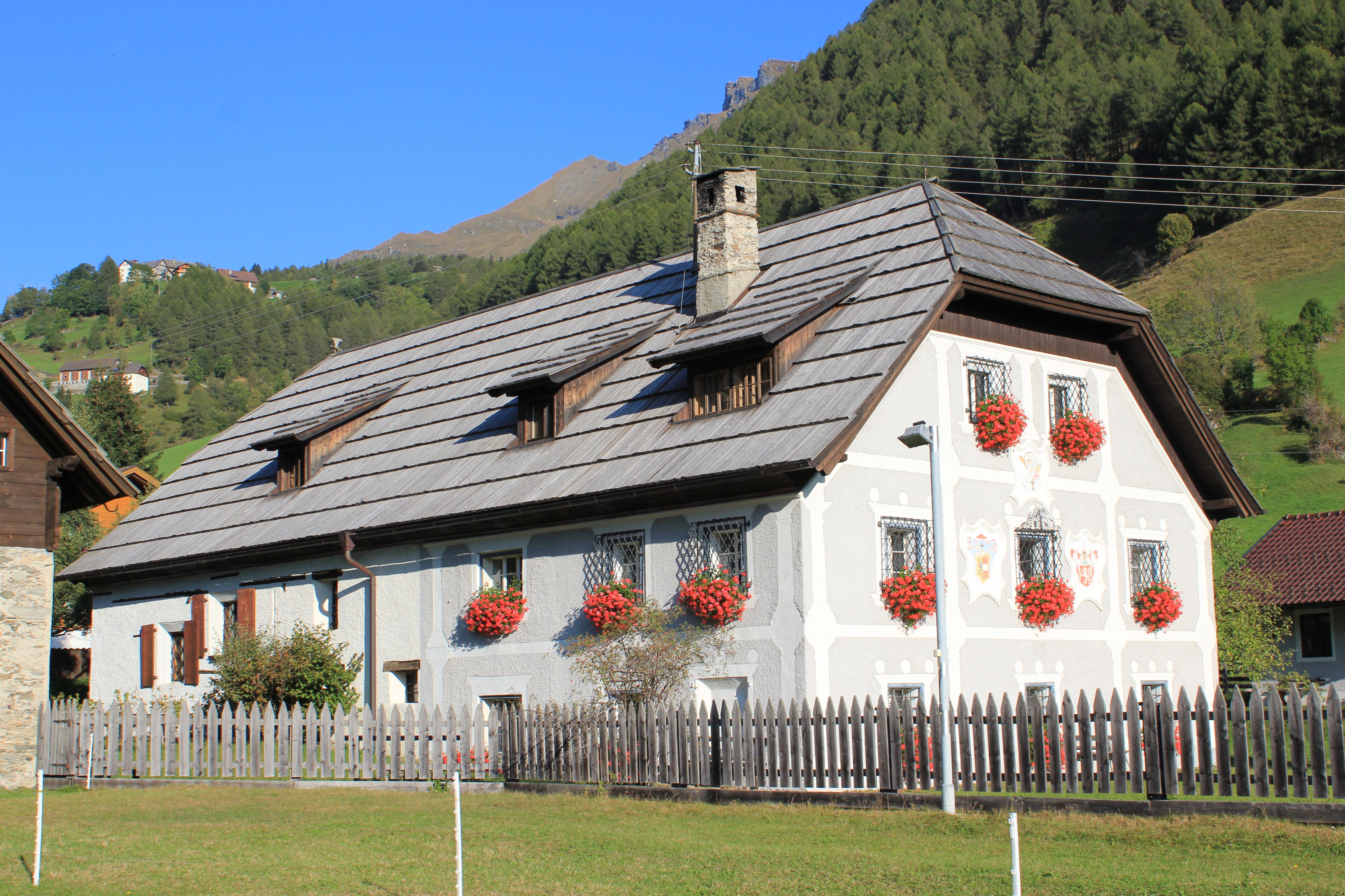 Historical mining building in Oberndorf in the community of Rennweg am Katschberg